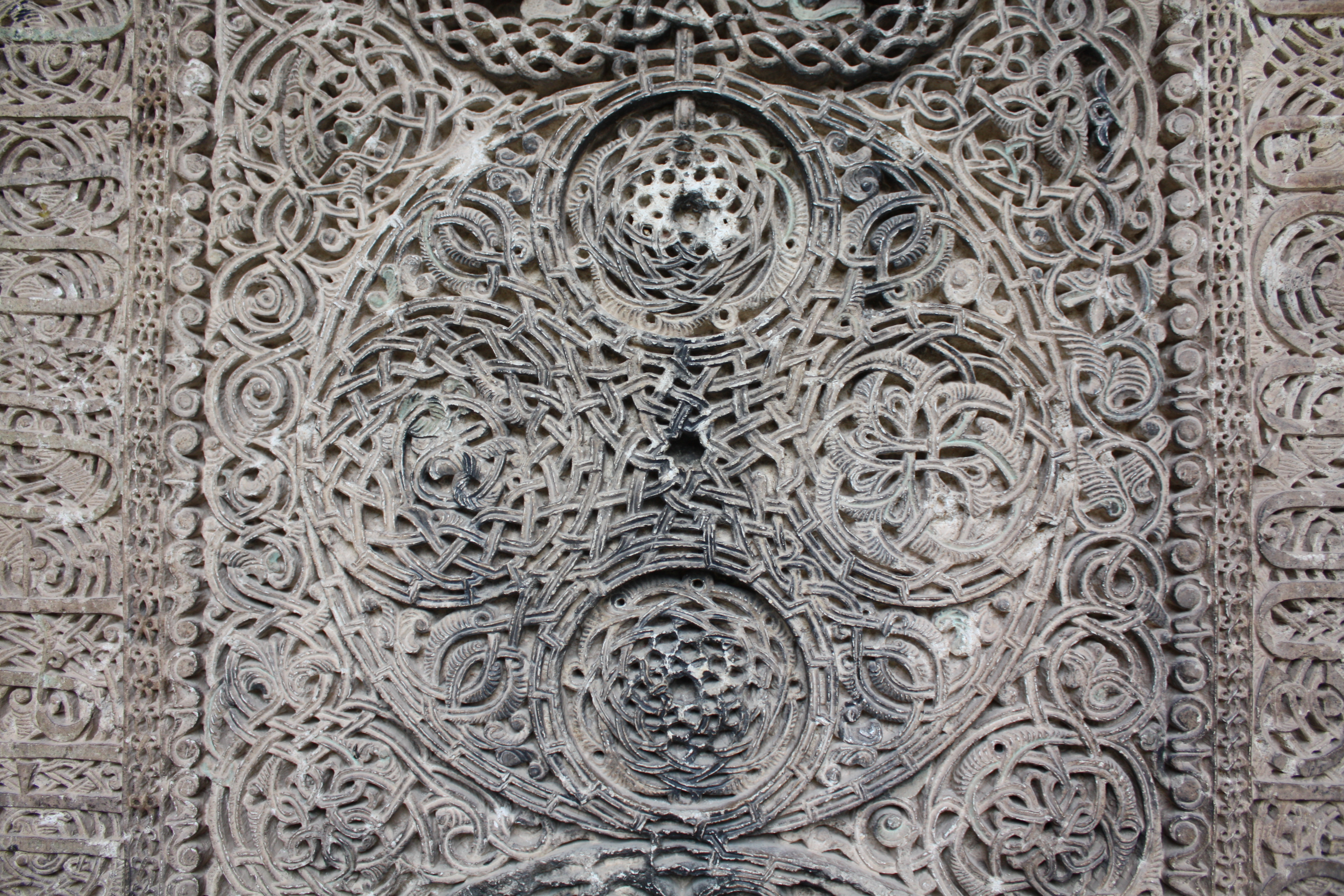 A khachkar, Dadivank Monastery, Nagorno-Karabakh